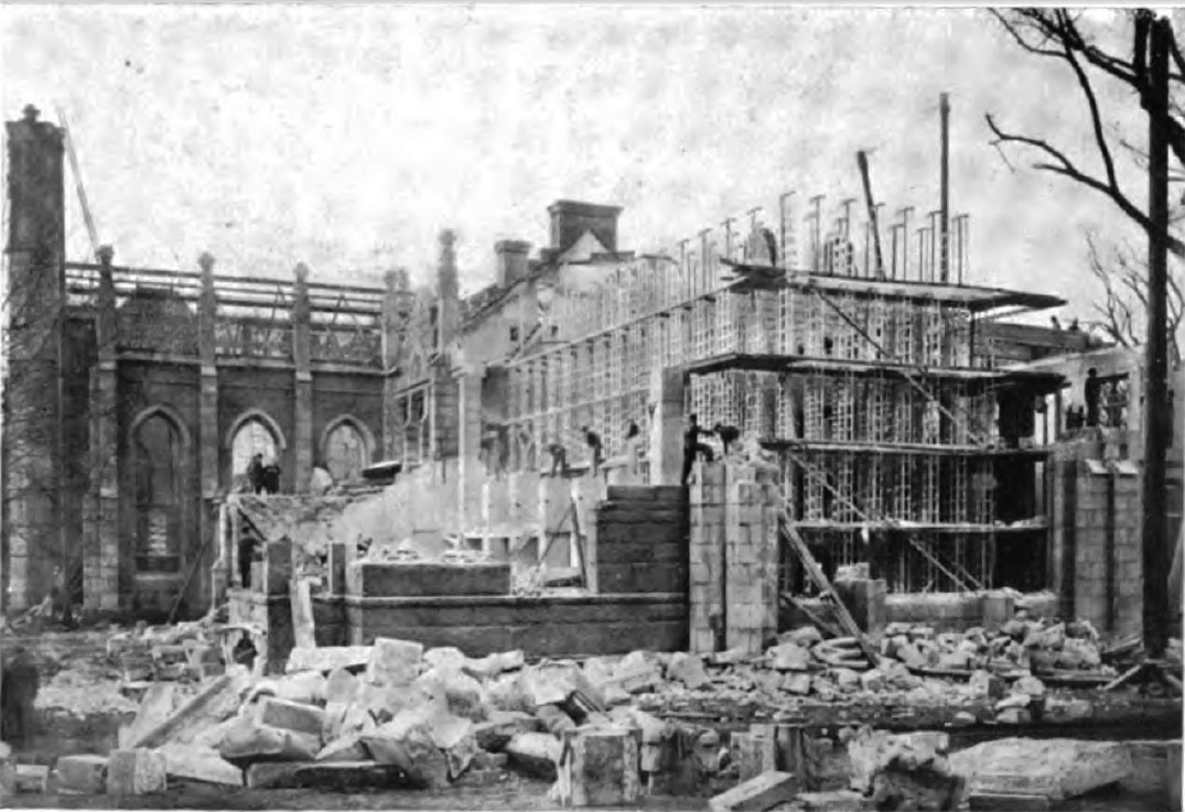 Gore Hall, Harvard University. "Structure in course of demolition, winter 1913, to make room for the Widener Memorial Library. Note the stack structure is entirely independent of the surrounding walls."